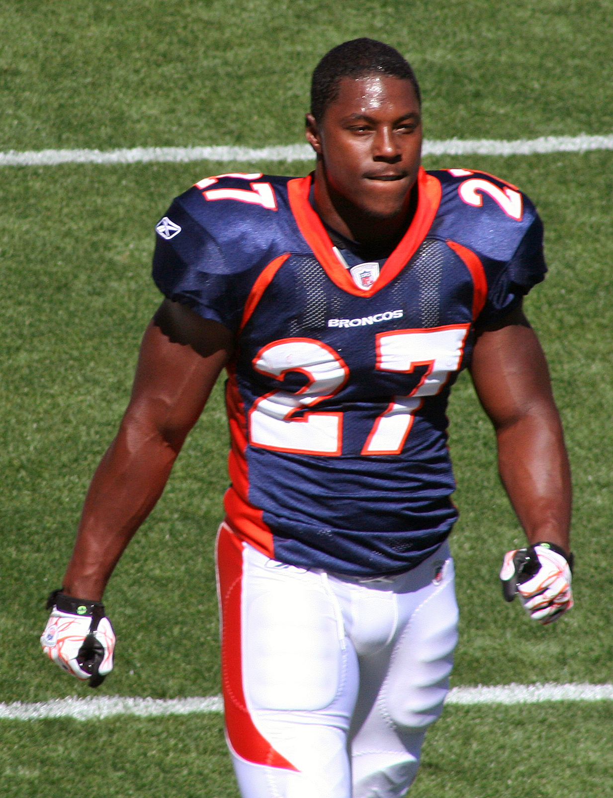 Knowshon Moreno, a player on the Denver Broncos American football team.